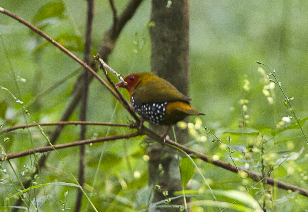 Green-backed Twinspot - Budongo - Uganda 06_4855